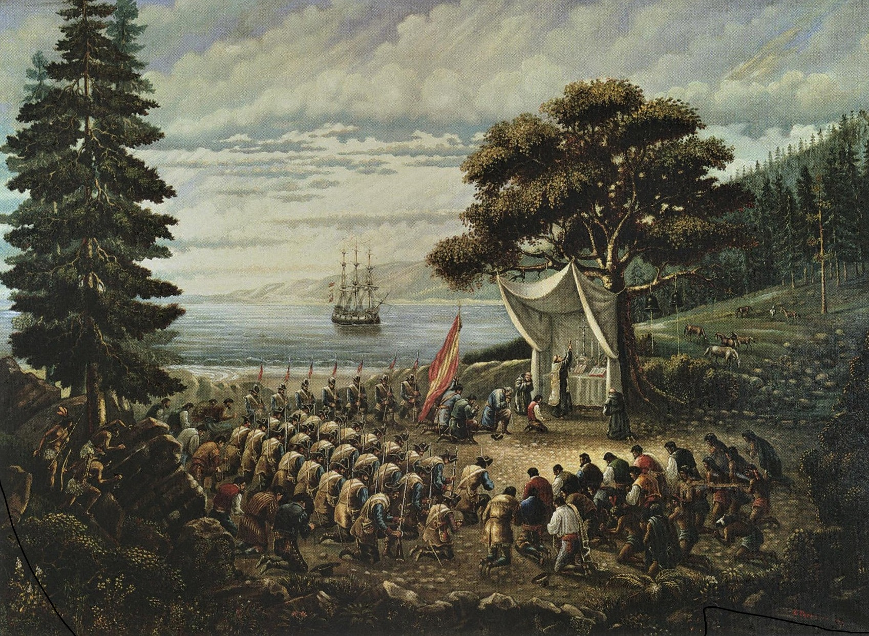 Father Serra Celebrates Mass at Monterey (oil on canvas). A depiction of Junípero Serra celebrating Mass in Monterey, California on 3 June 1770. The painting depicts Father Serra at the altar surrounded by the members of the Gaspar de Portolà expedition. The altar is placed beneath the Vizcaíno-Serra Oak. The original painting is held in the Carmel Mission museum.